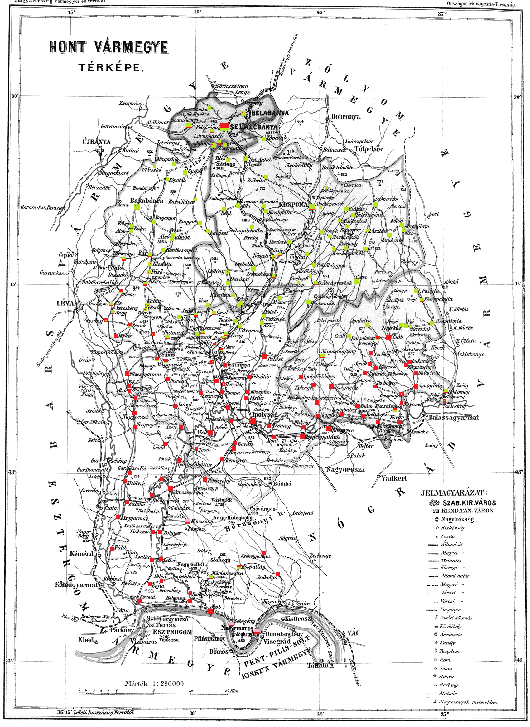 Ethnic map of the county (with data of the 1910 census). Key: red - Hungarians; light green - Slovaks; pink - Germans. Coloured dots in plain rectangles imply the presence of smaller minority populations (generally more than 100 people or 10%). Multicoloured rectangles imply cities and villages with multi-ethnic populations with the order of the stripes following the ethnic composition of the settlement.